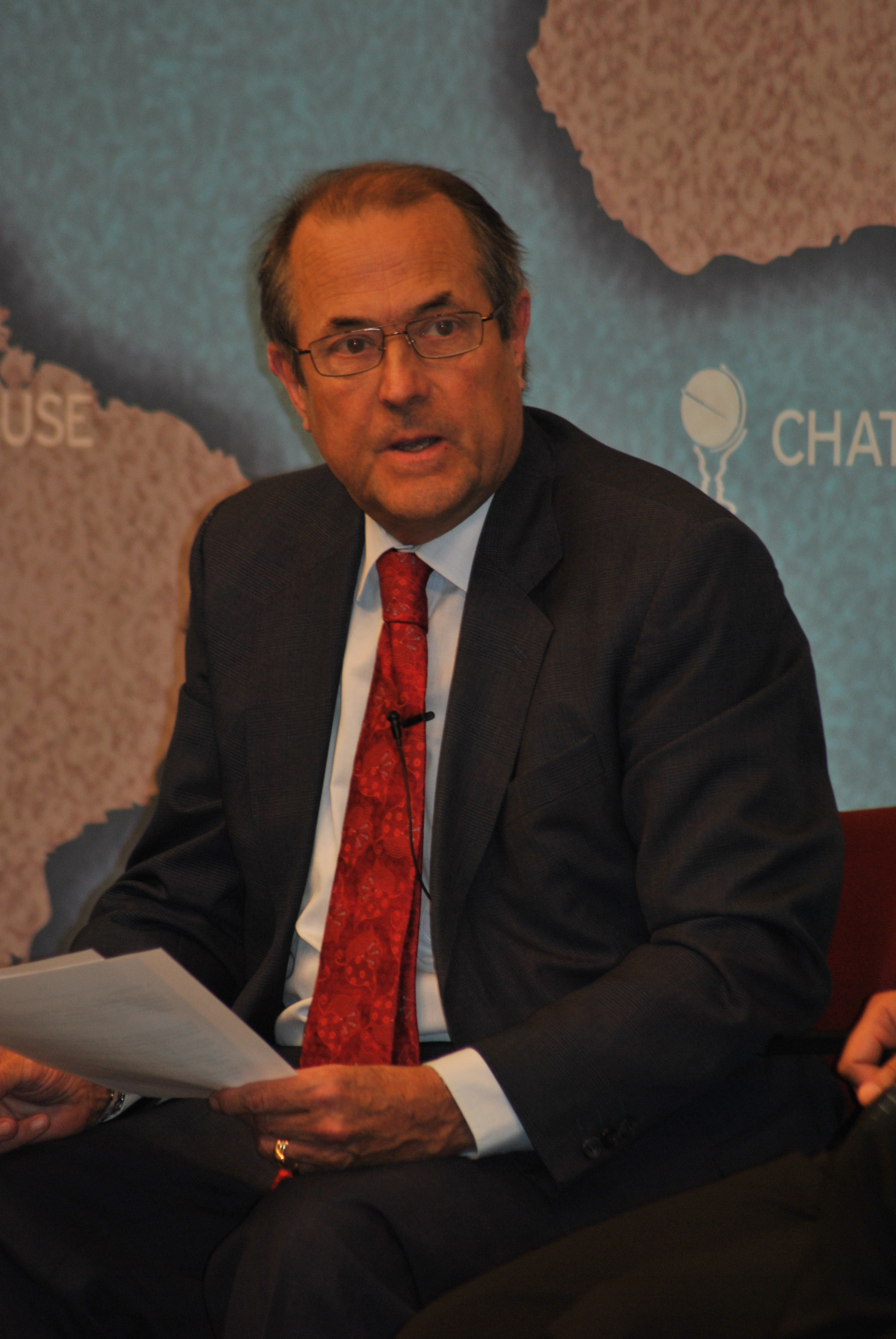 Sir Richard Dalton during the event Libya: Prospects and Challenges